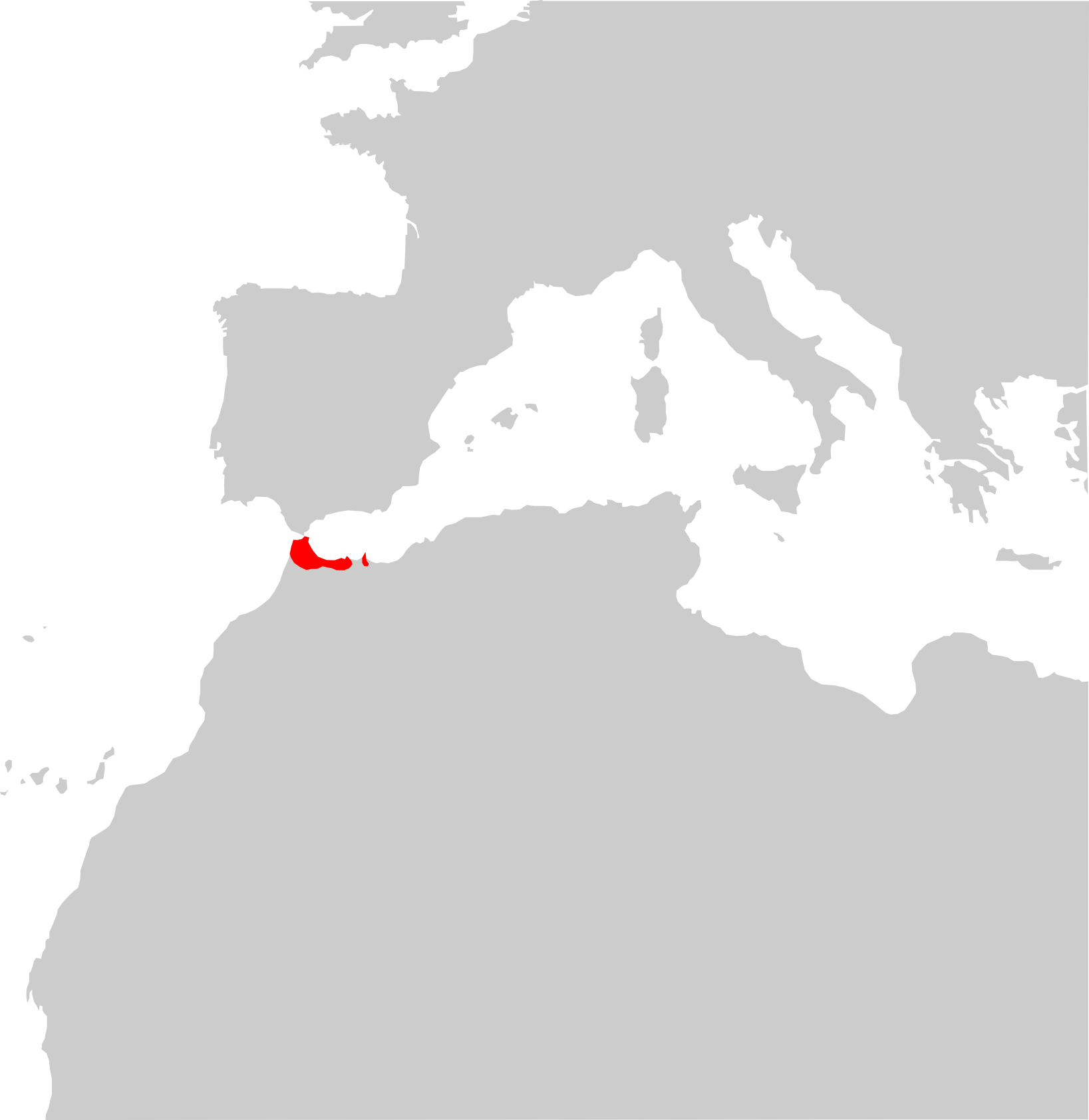 Chalcides colosii distribution map.